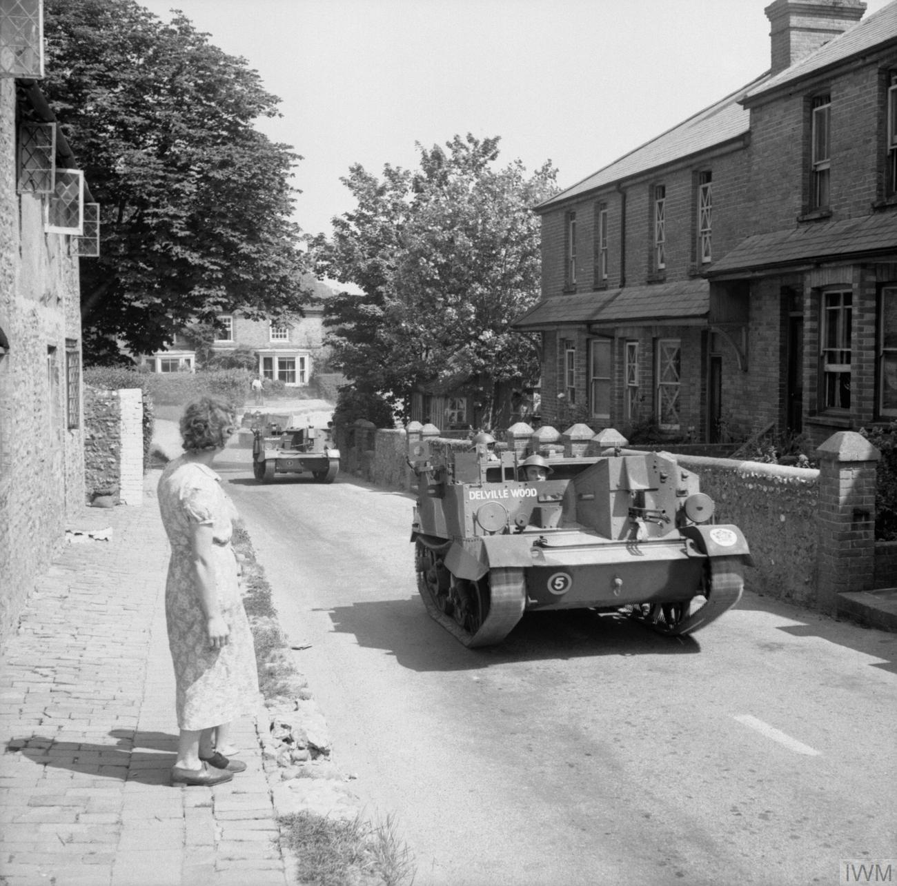 IWM caption : THE BRITISH ARMY IN THE UNITED KINGDOM 1939-45 A woman watches Universal carriers of the 9th Battalion, King's Regiment moving through a Sussex village.